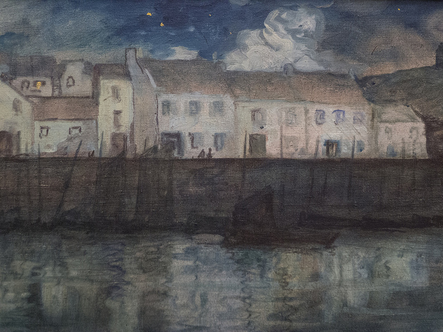 Port Breton Camaret